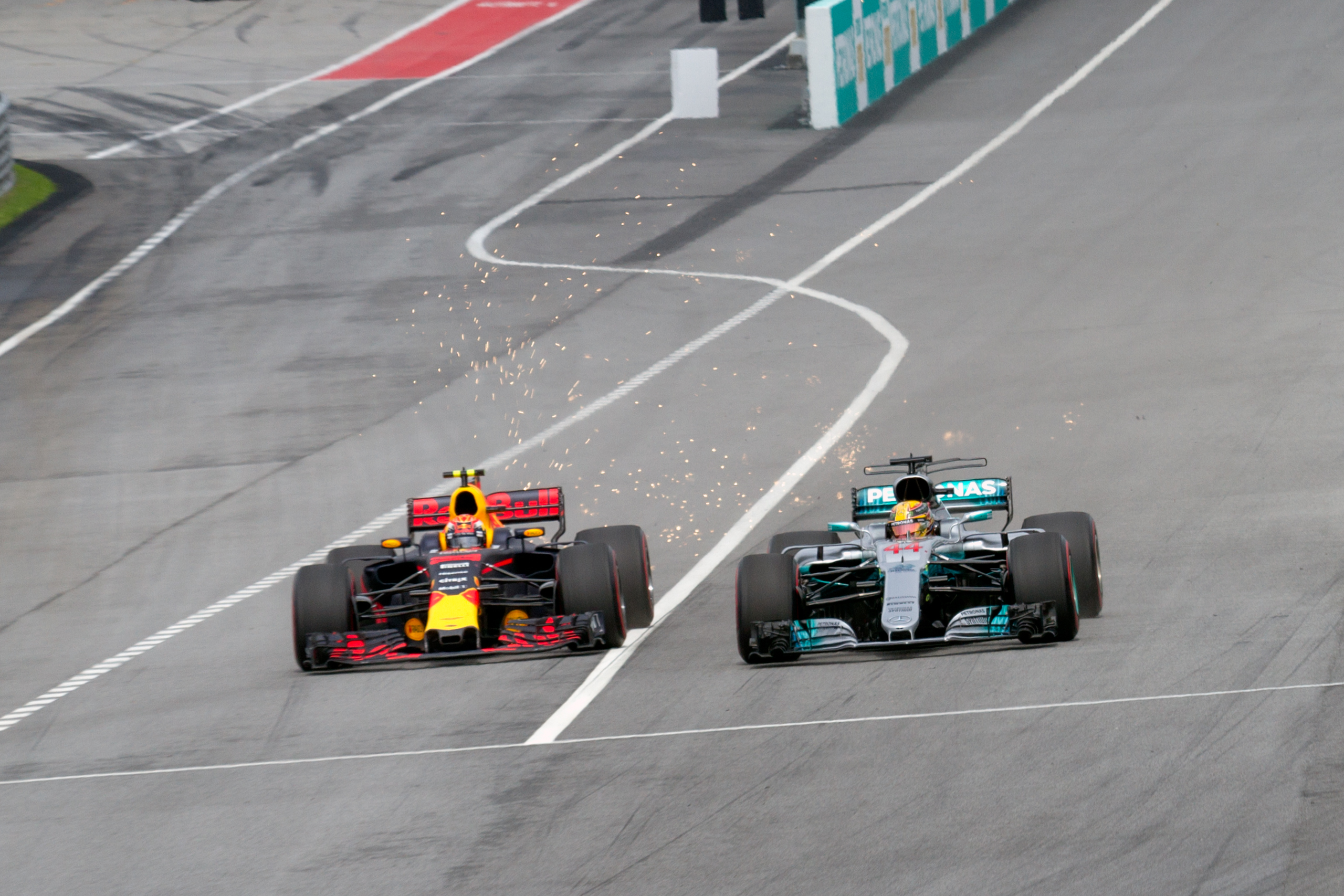 Formula One 2017 Rd.15 Malaysian GP: Max Verstappen (Red Bull) overtaking Lewis Hamilton (Mercedes)